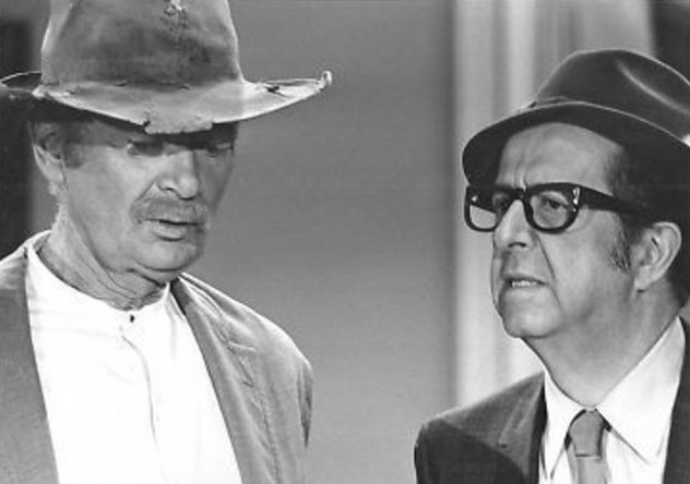 Publicity photo of Buddy Ebsen and Phil Silvers from The Beverly Hillbillies. Episode is "Honest John Returns". Silvers had a recurring role on the show from 1969 to 1970 as Shifty Shafer aka "Honest John", who tried getting the family to invest in dubious schemes.